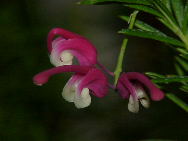 Species: Grevillea rosmarinifolia Family: Proteaceae Image No. 2